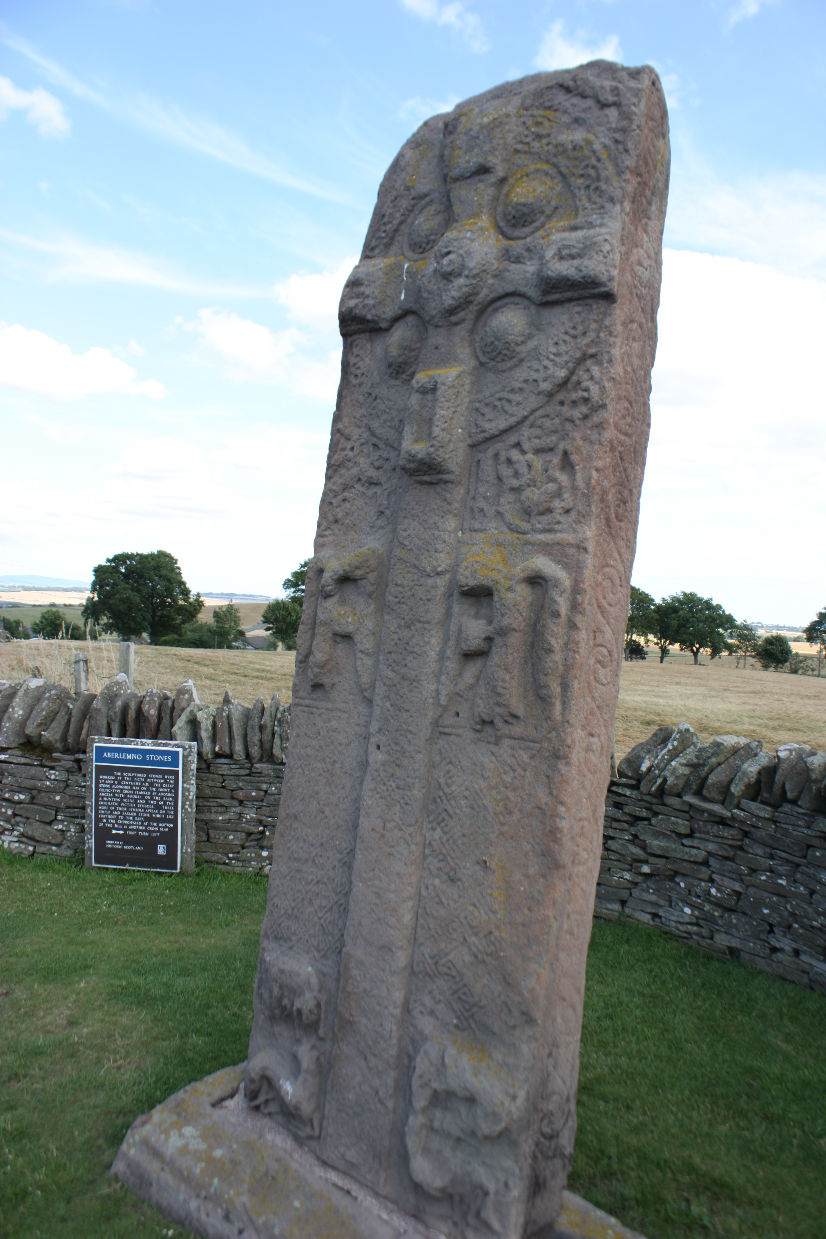 Aberlemno Pictish stone in Angus, Scotland, UK.